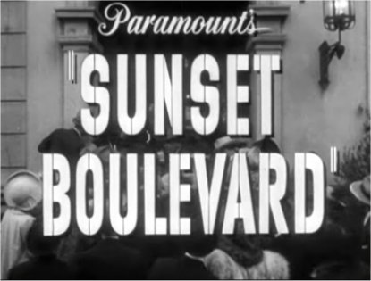 Screenshot taken by me (Icea) from the trailer to the movie Sunset Blvd.